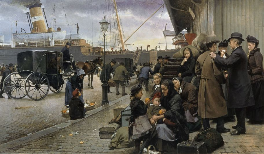 Danish emigrants waiting to board their ship.